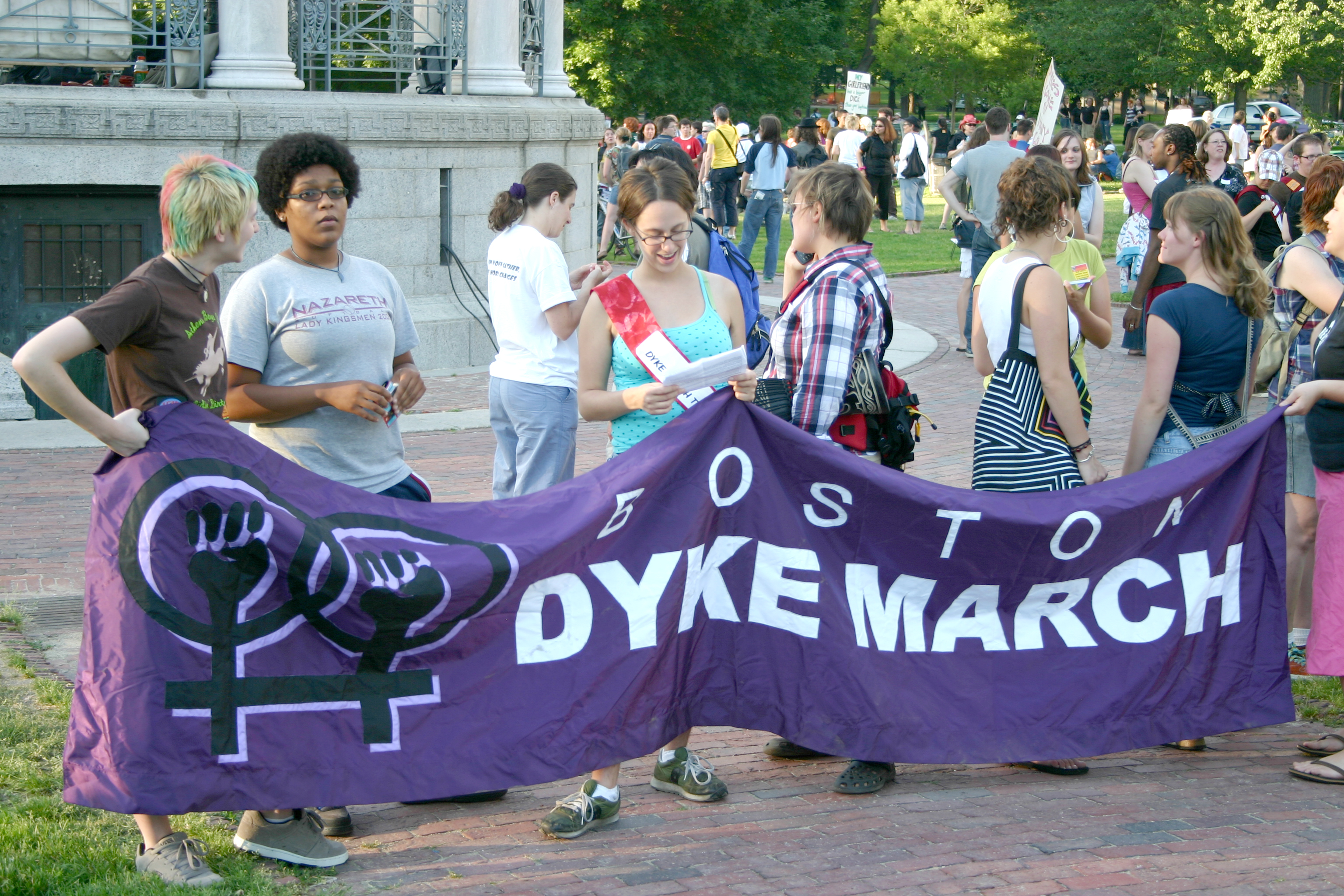 Dyke March 2008, in Boston, Massachusetts. Dykes march around the Boston Common and then whoop it up for a while with music and events.